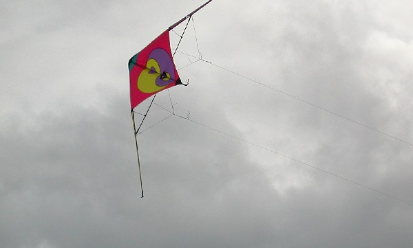 Summary Delta style sport kite flying. The picture was taken from below the kite, looking almost straight up. From this vantage point, the control lines can be clearly seen. The kite pictured is home designed and built by my father and me. The photo was taken by my father.